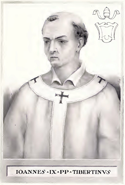 This illustration is from The Lives and Times of the Popes by Chevalier Artaud de Montor, New York: The Catholic Publication Society of America, 1911. It was originally published in 1842.